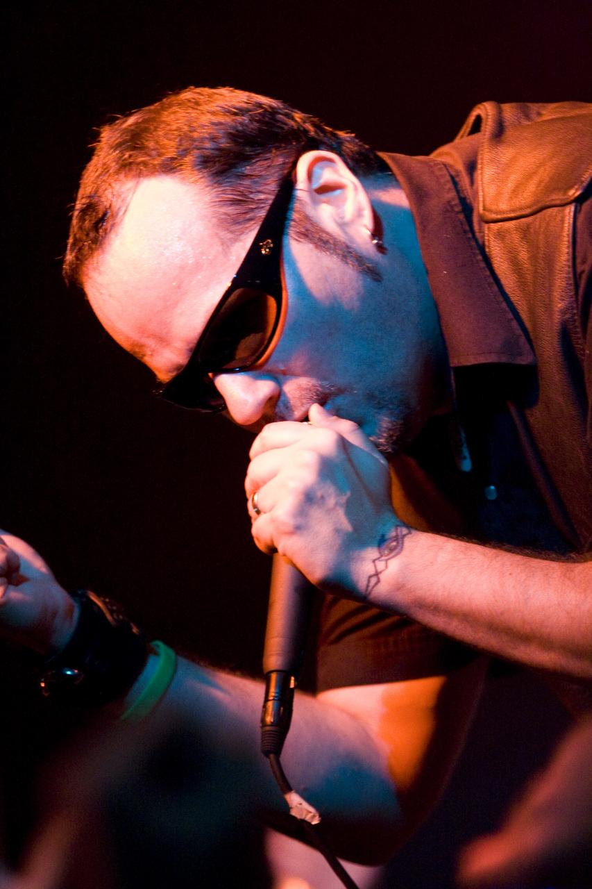 Tim "Ripper" Owens live in São Paulo.